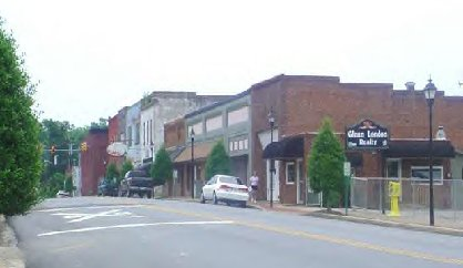 Shelby Street in Downtown Blacksburg. Author: Nathan White Source URL